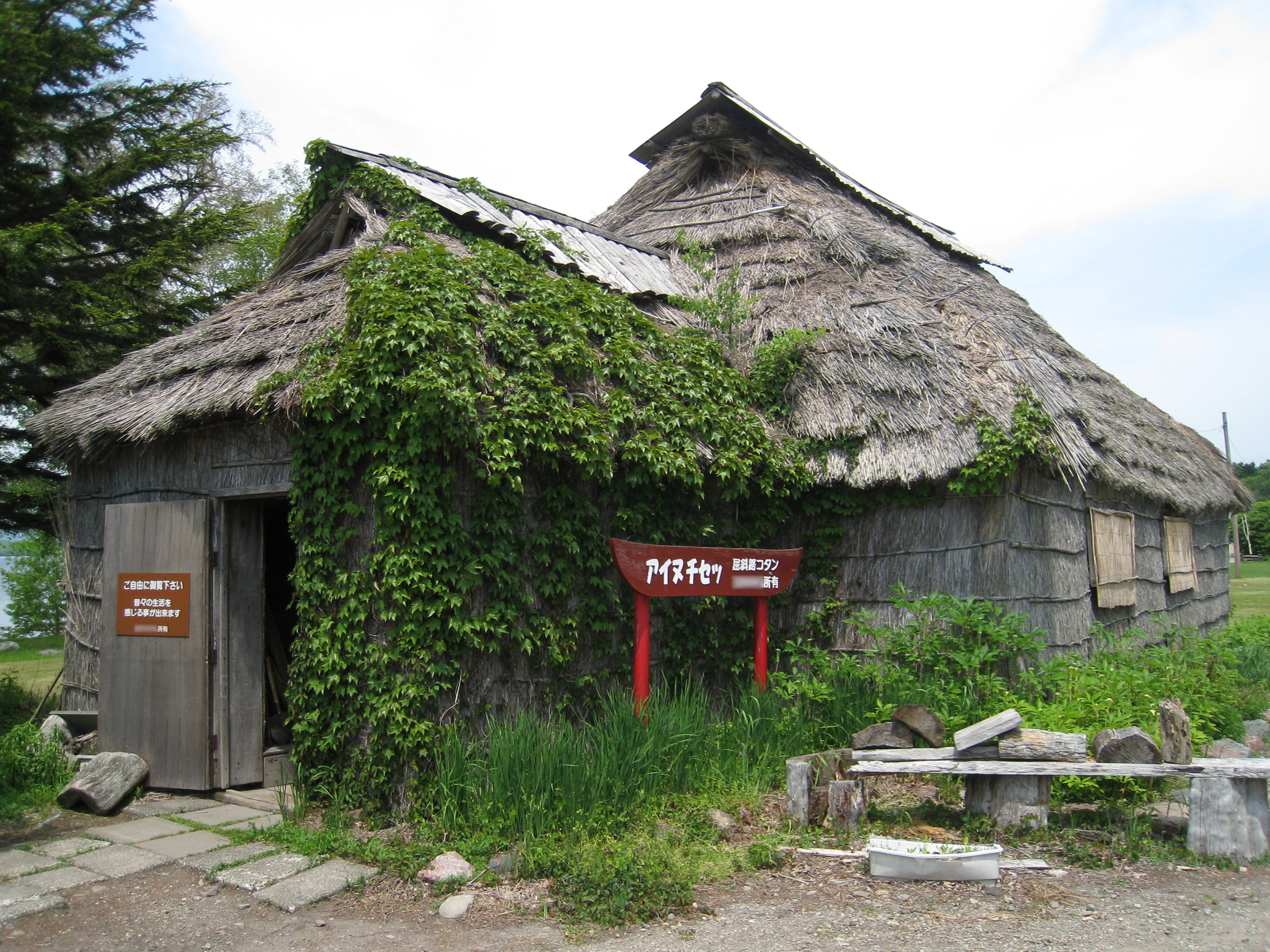 Ainu house in Teshikaga Town Kussharo Kotan Ainu Museum, This photo taken in June 19, 2008